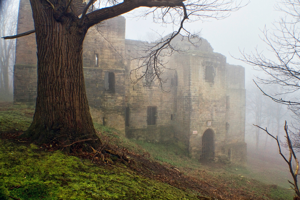 Shrouded in a thick blanket of fog at the break of dawn, this is Harewood Castle: an ancient medieval fort which was built in the 14th century. You can view the original high-resolution photograph, along with other views of the castle, online in this set of images.